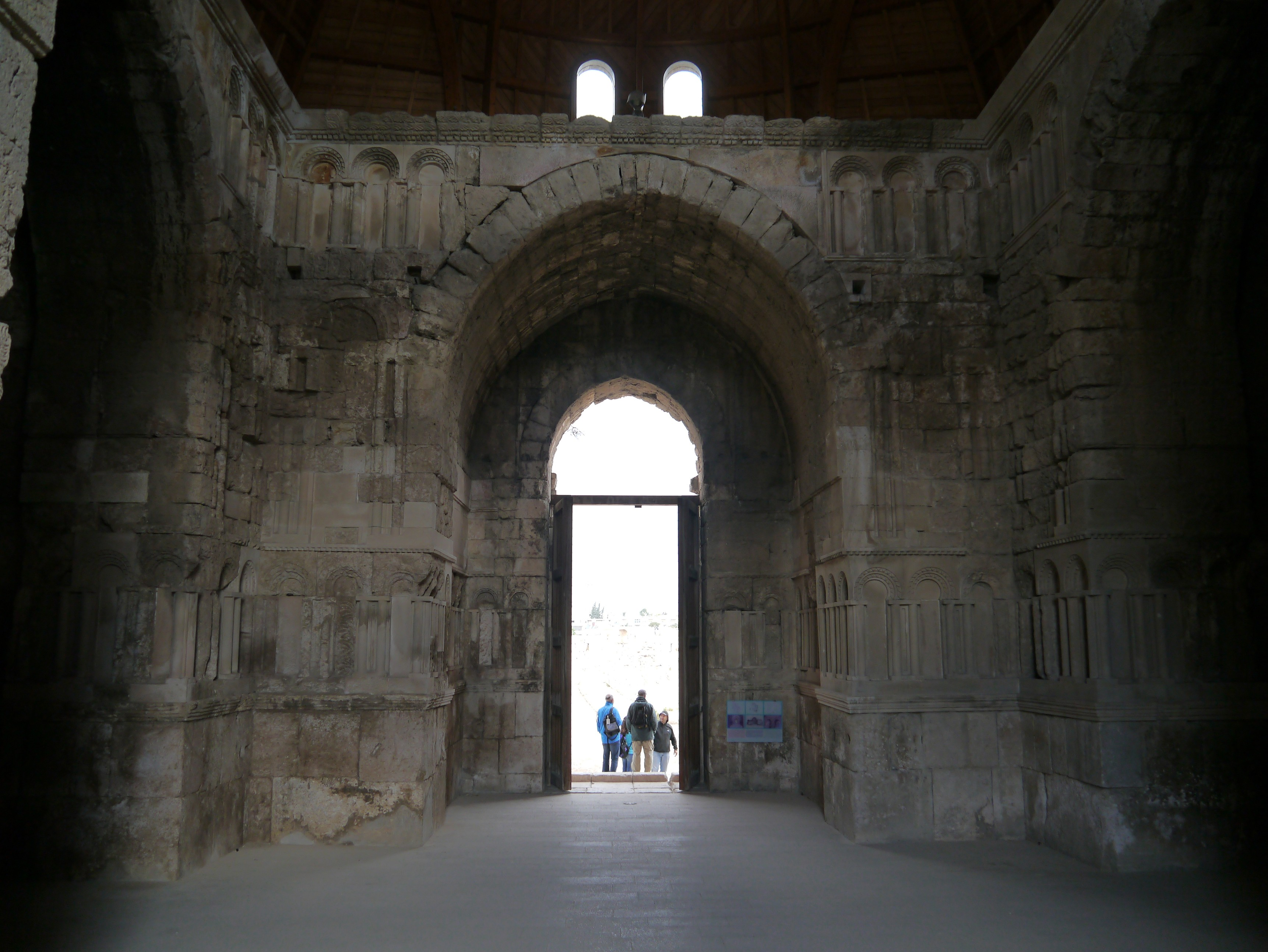 Umayyad part of the Citadel, Amman, Northwestern Jordan